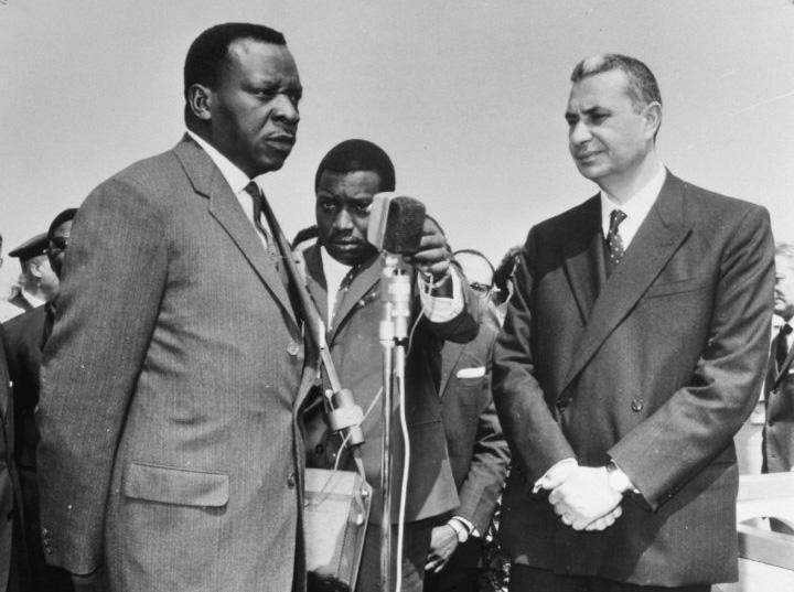 Cyrille Adoula (left)